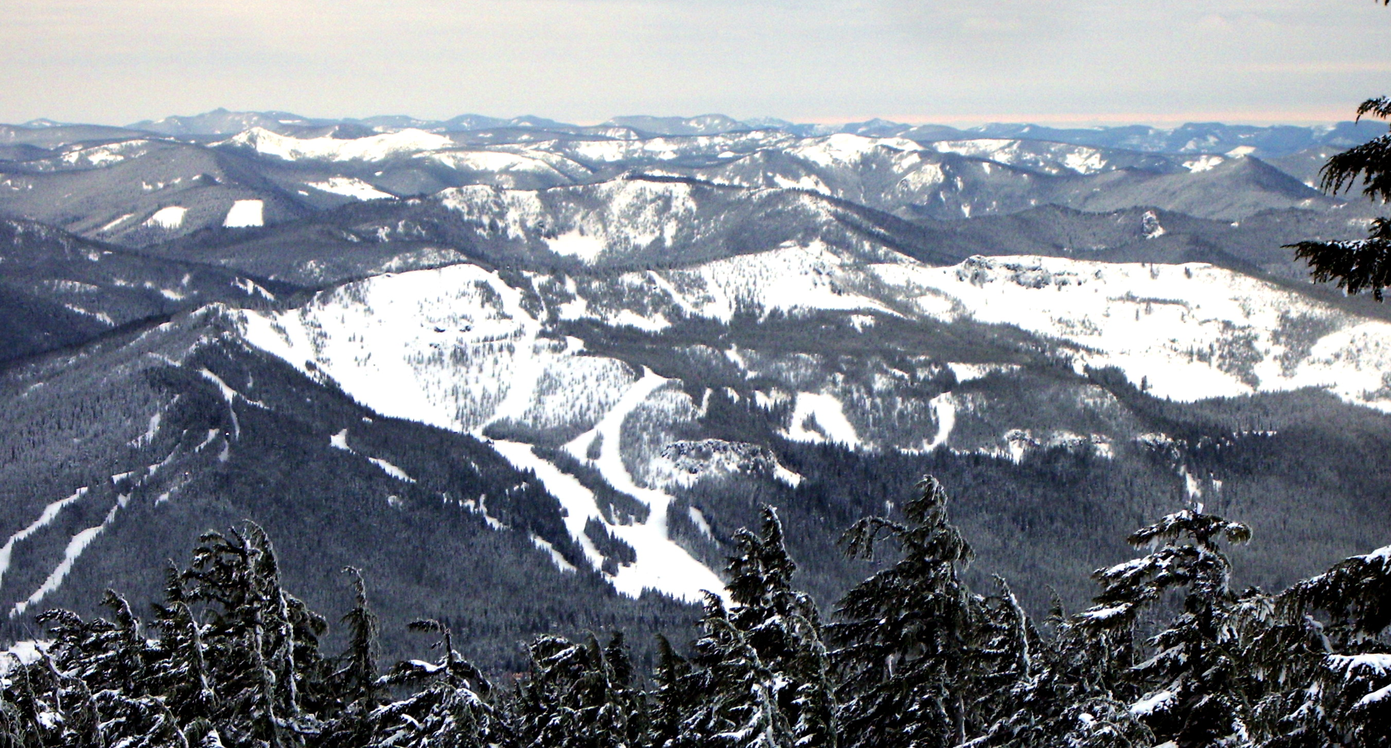 Ski bowl as seen near sunset from Timberline Lodge ski area. Some night skiing lights are on along the ridge at left.